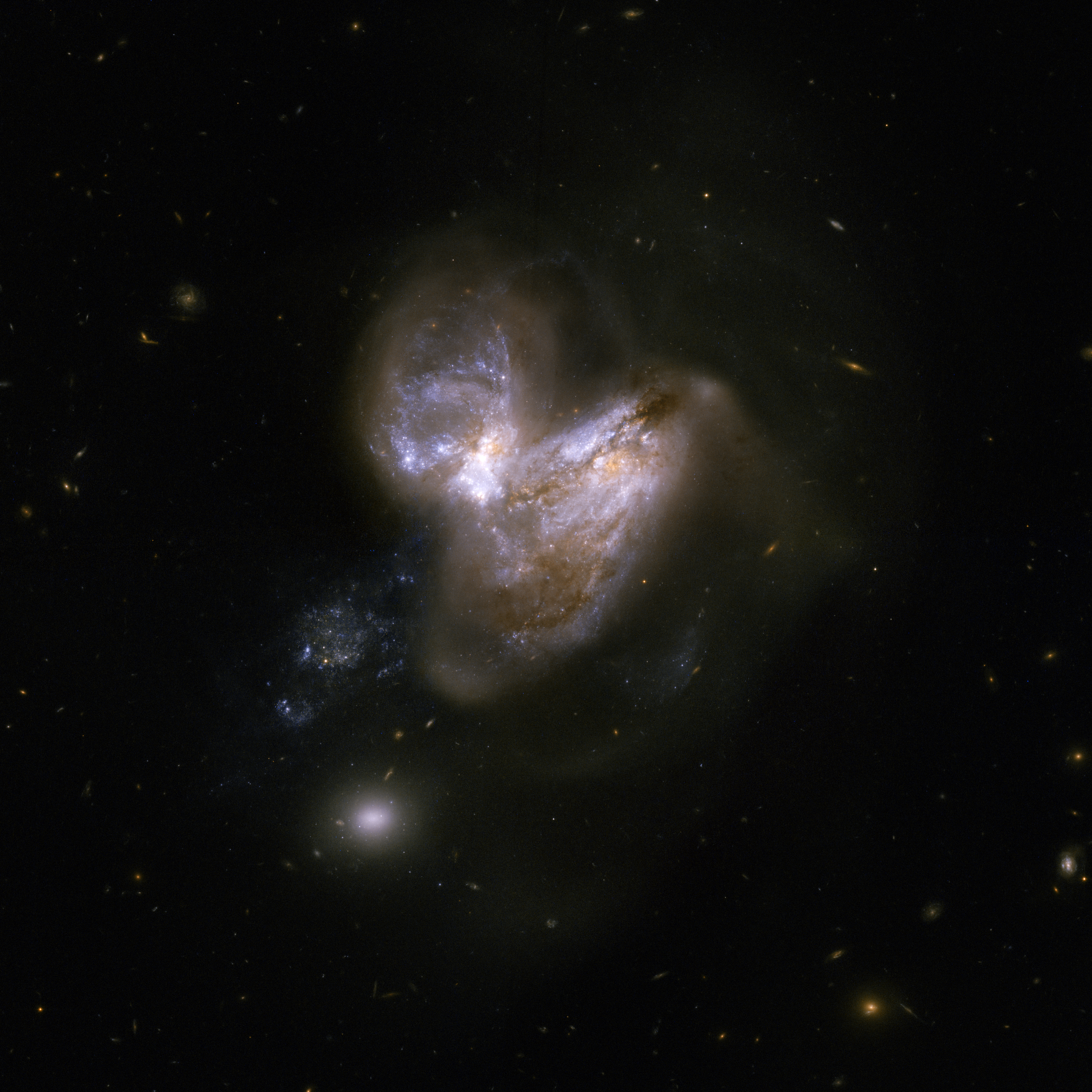 This system consists of a pair of galaxies, dubbed IC 694 and NGC 3690, which made a close pass some 700 million years ago. As a result of this interaction, the system underwent a fierce burst of star formation. In the last fifteen years or so six supernovae have popped off in the outer reaches of the galaxy, making this system a distinguished supernova factory. Arp 299 belongs to the family of ultra-luminous infrared galaxies and is located in the constellation of Ursa Major, the Great Bear, approximately 150 million light-years away. It is the 299th galaxy in Arp's Atlas of Peculiar Galaxies. Despite its enormous amount of absorbing dust, enough violet and near-ultraviolet light leaks out for it to be number 171 in B.E. Markarian's catalog of galaxies with excess ultraviolet emission. This image is part of a large collection of 59 images of merging galaxies taken by the Hubble Space Telescope and released on the occasion of its 18th anniversary on 24th April 2008. About the objectObject nameNGC 3690, IC 694, Mrk 171, Arp 299, VV 118, KPG 288Object descriptionInteracting GalaxiesPosition (J2000)11 28 32.10 +58 33 46.9ConstellationUrsa MajorDistance150 million light-years (50 million parsecs)About the dataData descriptionThe Hubble image was created using HST data from proposal 10592: A. Evans (University of Virginia, Charlottesville/NRAO/Stony Brook University)InstrumentACS/WFCExposure date(s)March 18, 2002Exposure time38 minutesFiltersF435W (B) and F814W (I)